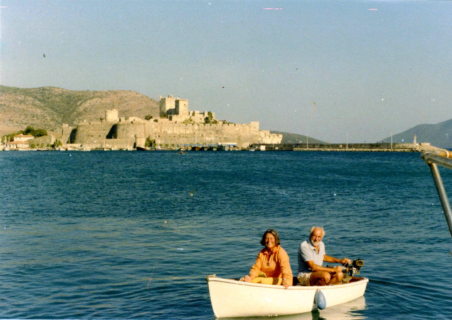 Eric Williams and his wife Sibyl in a dinghy (tender to their yacht Escaper) in Bodrum Harbor (Turkey)